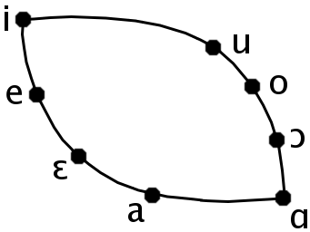 File:Cardinal vowel chart-accurate(png).svg is a vector version of this file. It should be used in place of this raster image when not inferior. File:Cardinal vowel chart-accurate.png File:Cardinal vowel chart-accurate(png).svg For more information about vector graphics, read about Commons transition to SVG. There is also information about MediaWiki's support of SVG images.